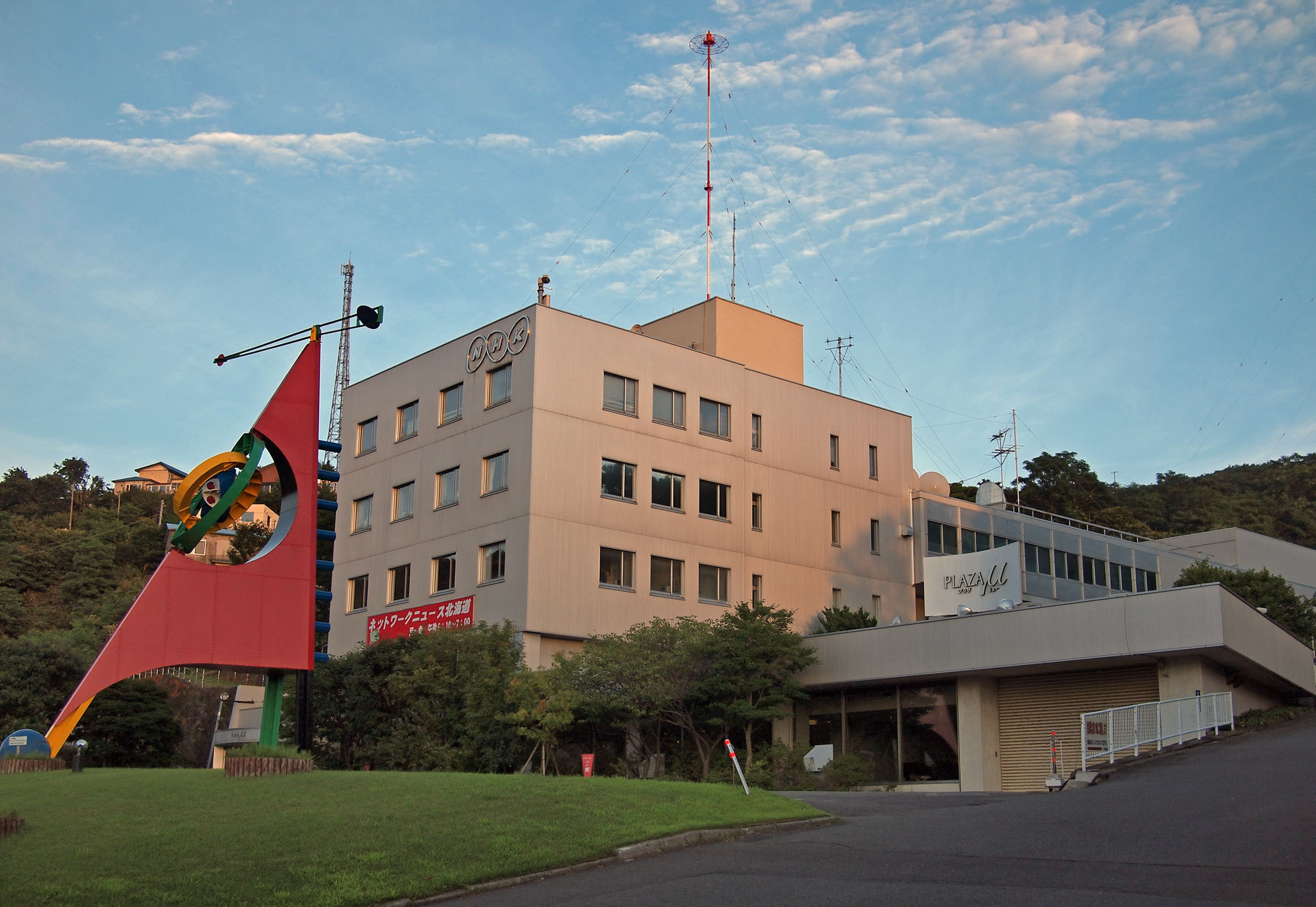 NHK Muroran Broadcasting Station in Muroran City, Hokkaido, Japan